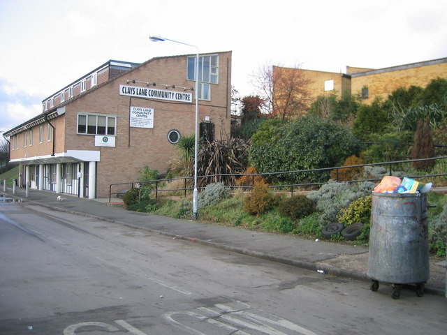 Clays Lane Community The centre of a once thriving community displaced by the Olympic Park developments